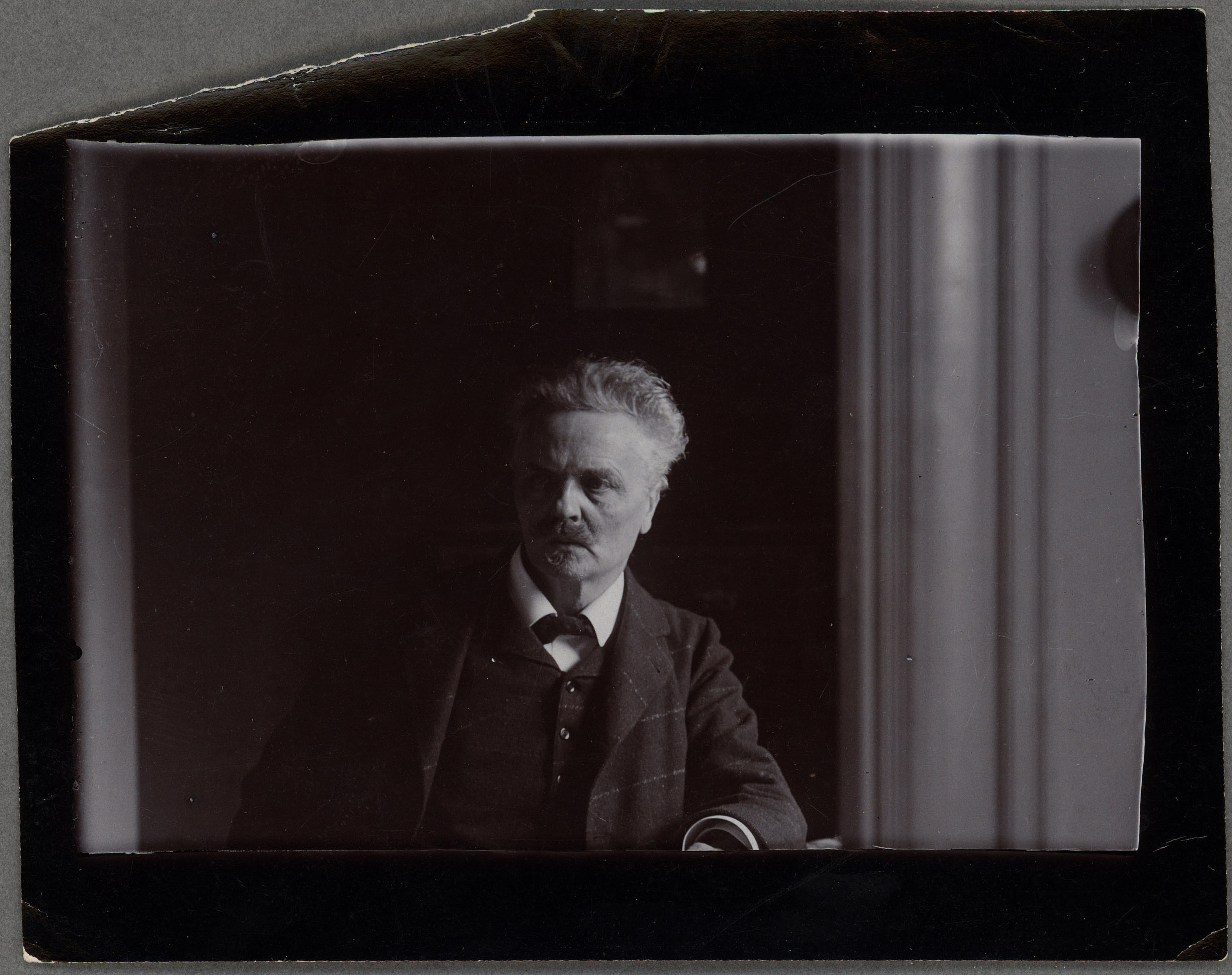 Portrait of Swedish author August Strindberg Date: 1908 Photographer: Herman Anderson, Stockholm Part Of: National Library of Sweden, Collection of Manuscripts, Strindbergsrummet